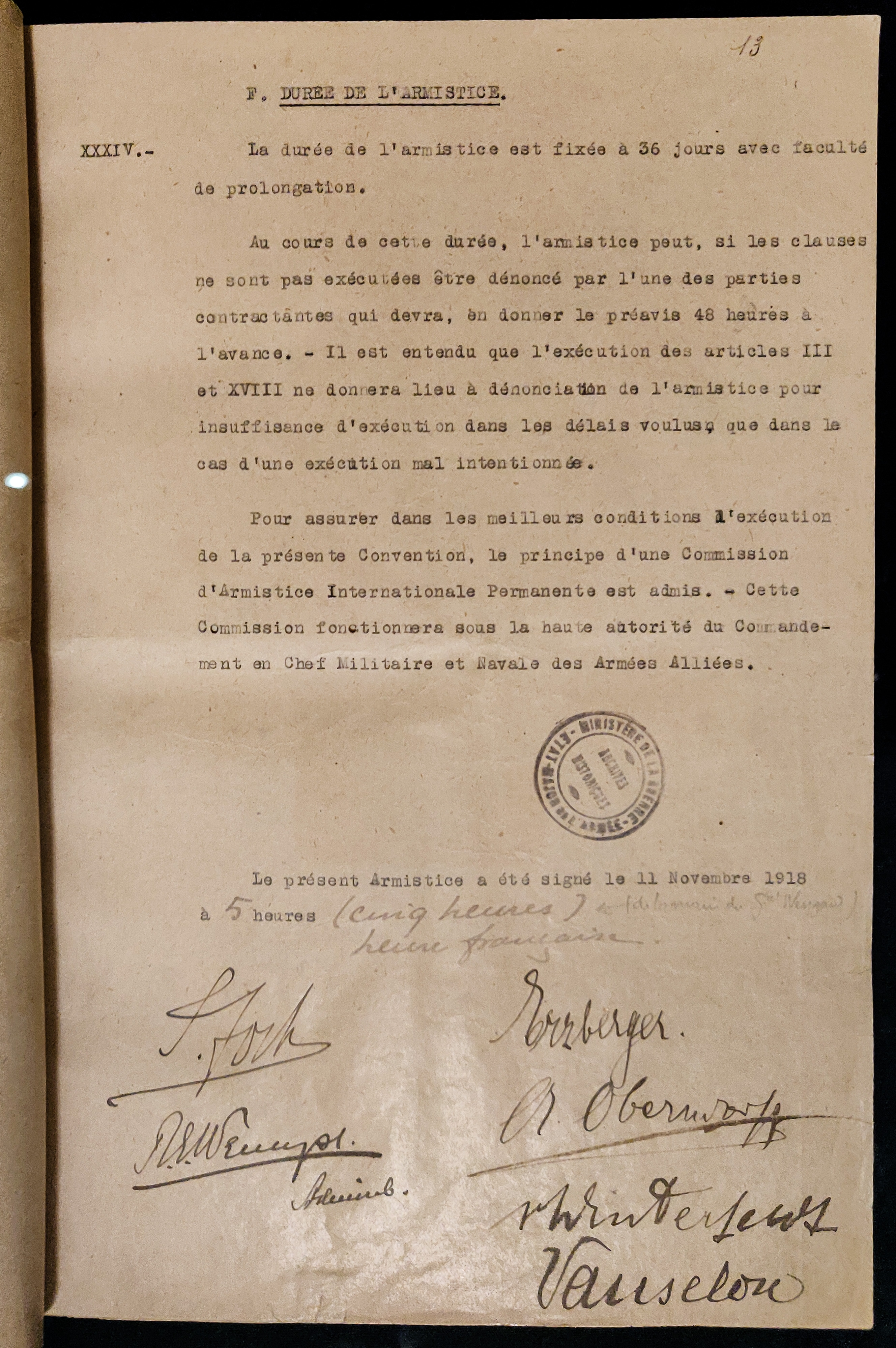 Last page of the Armistice agreement of November the 11th 1918.